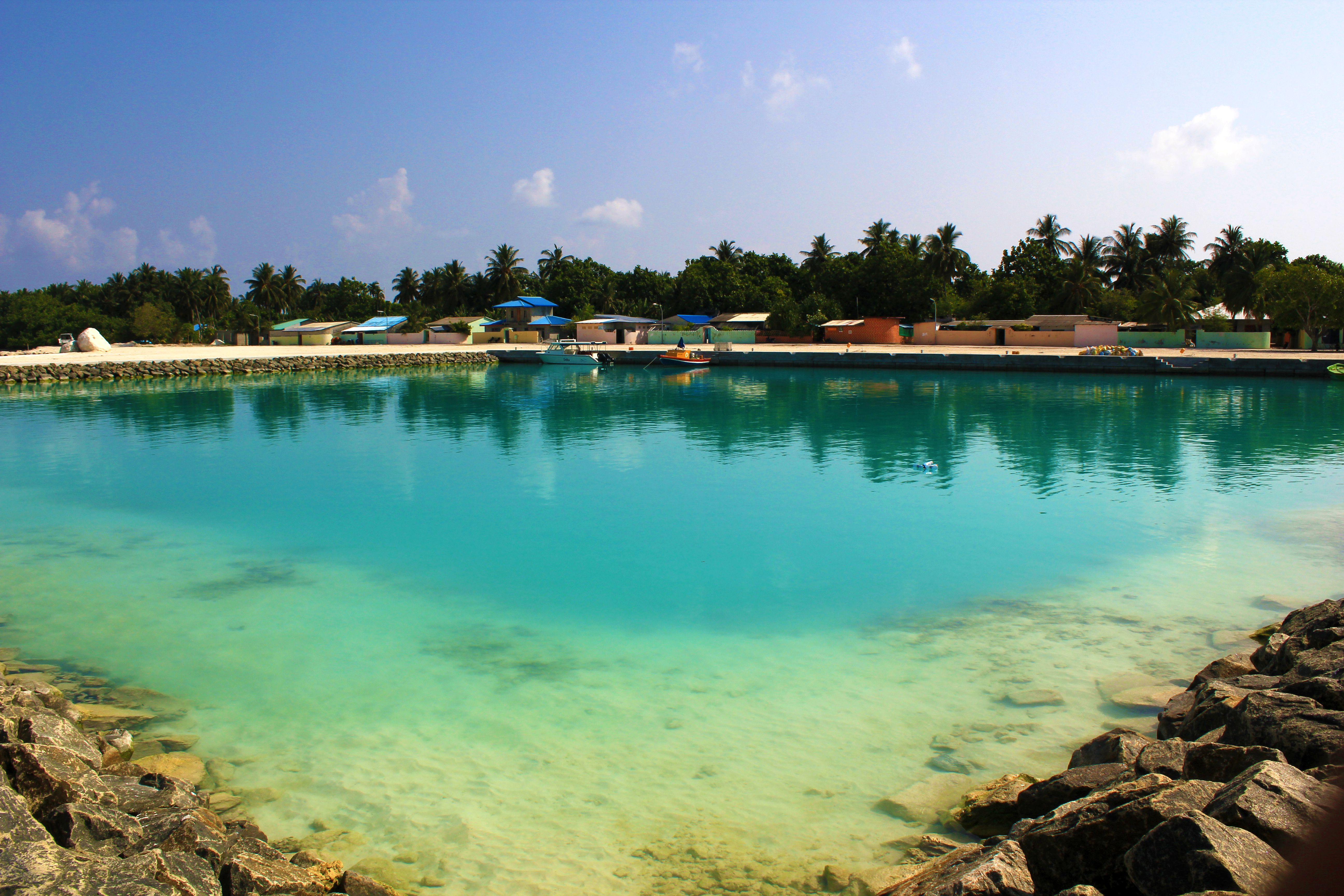 File:File:IMG_1955.jpg front view of Ukulhas at the front jetty.